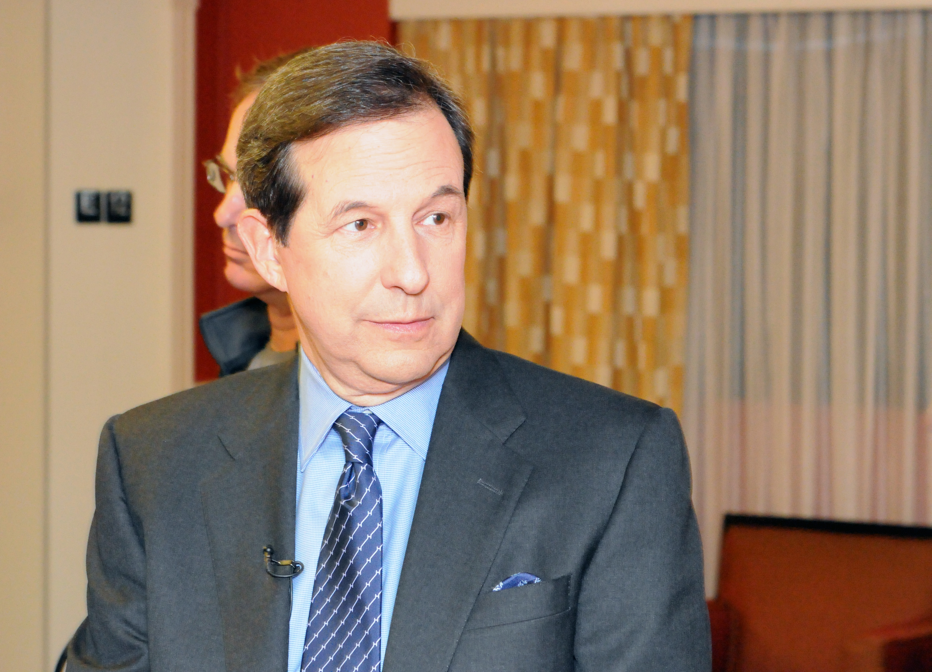 Chris Wallace of Fox News seen at the J.W. Marriott Hotel in Washington, D.C., before a gala honoring advocates of the National Guard Youth ChalleNGe Program on Feb. 23, 2010. The 17-month voluntary intervention program provides training and education for high school dropouts, graduating 92,850 since 1993. (U.S. Army photo by Staff Sgt. Jim Greenhill) (Released)